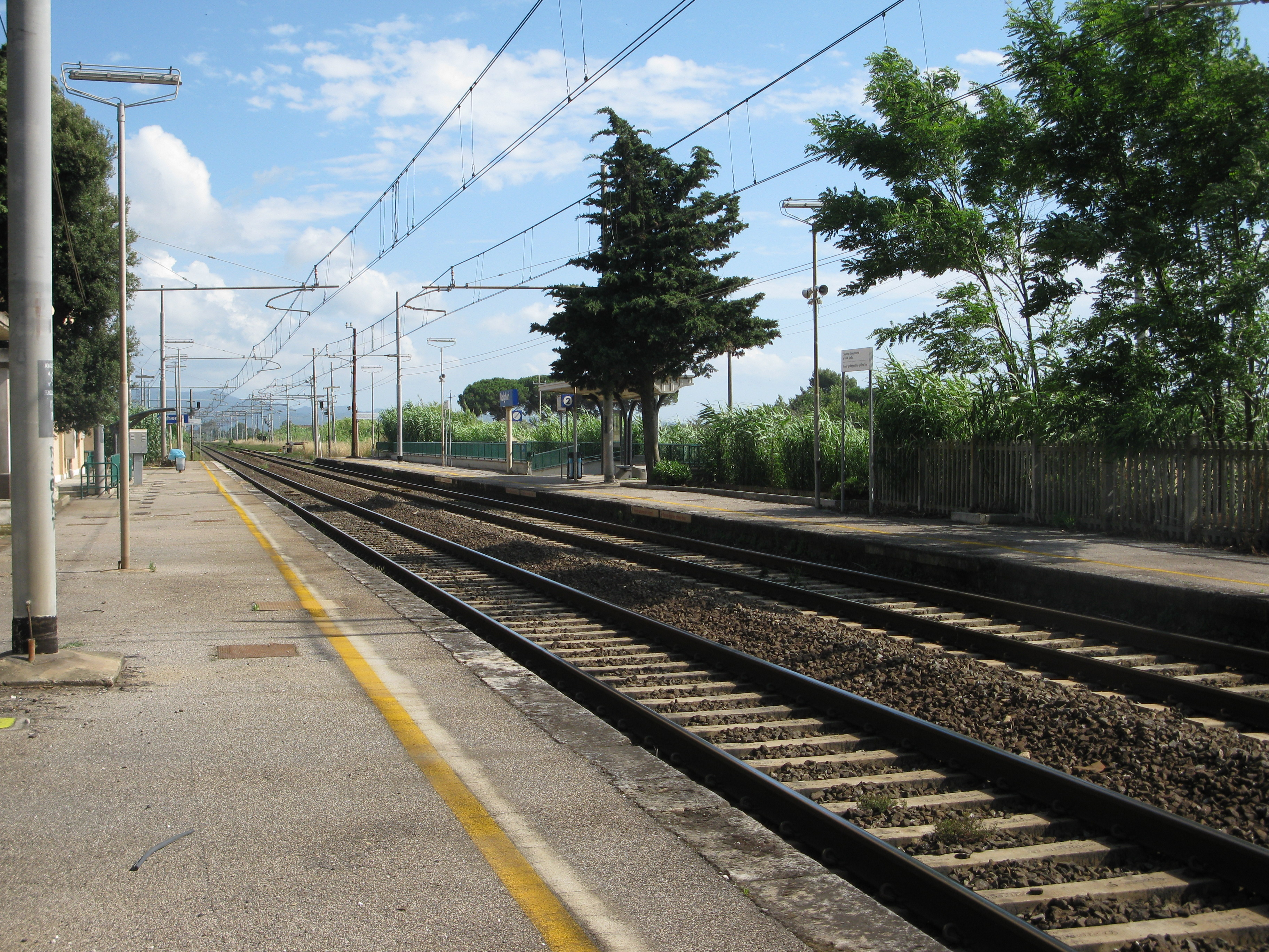 Bolgheri railway station